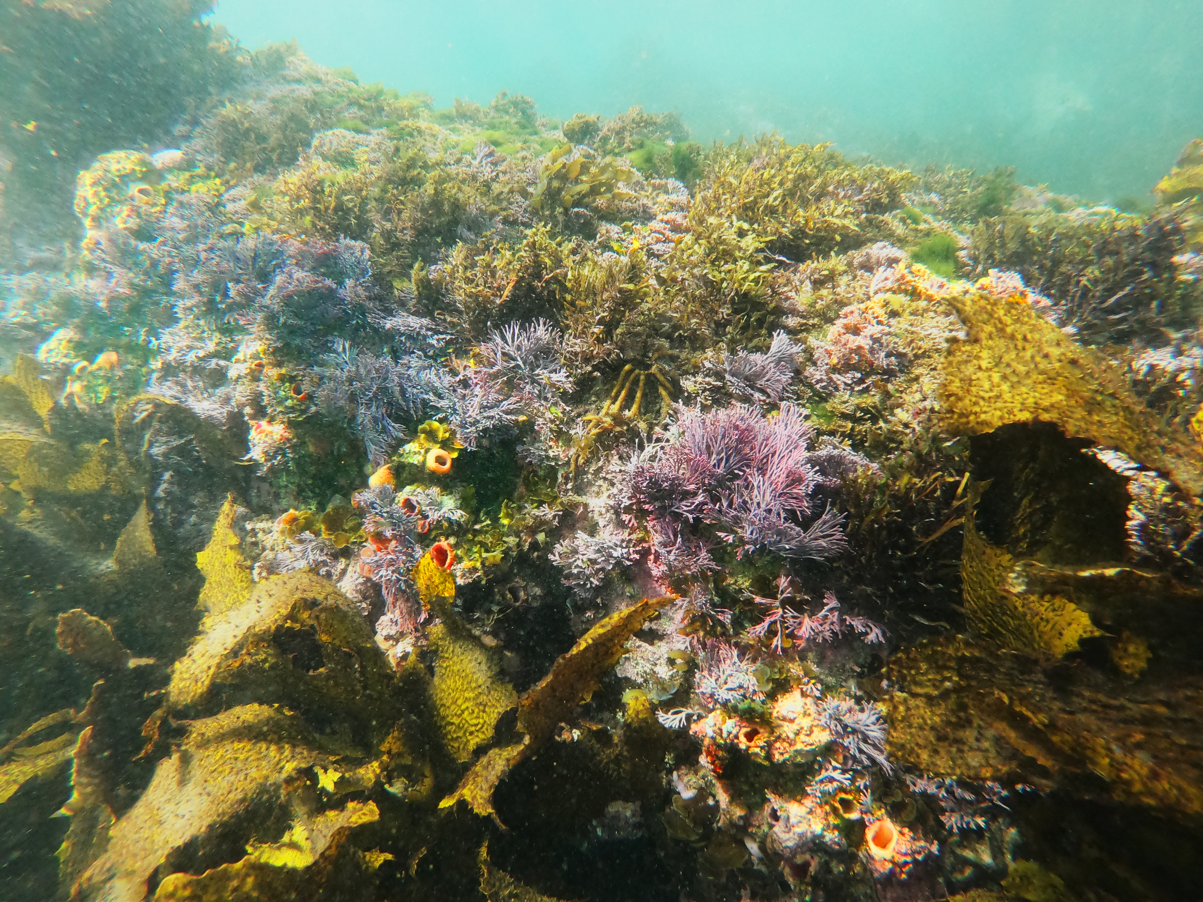 This is a picture of recent coral growth in Manly, NSW.